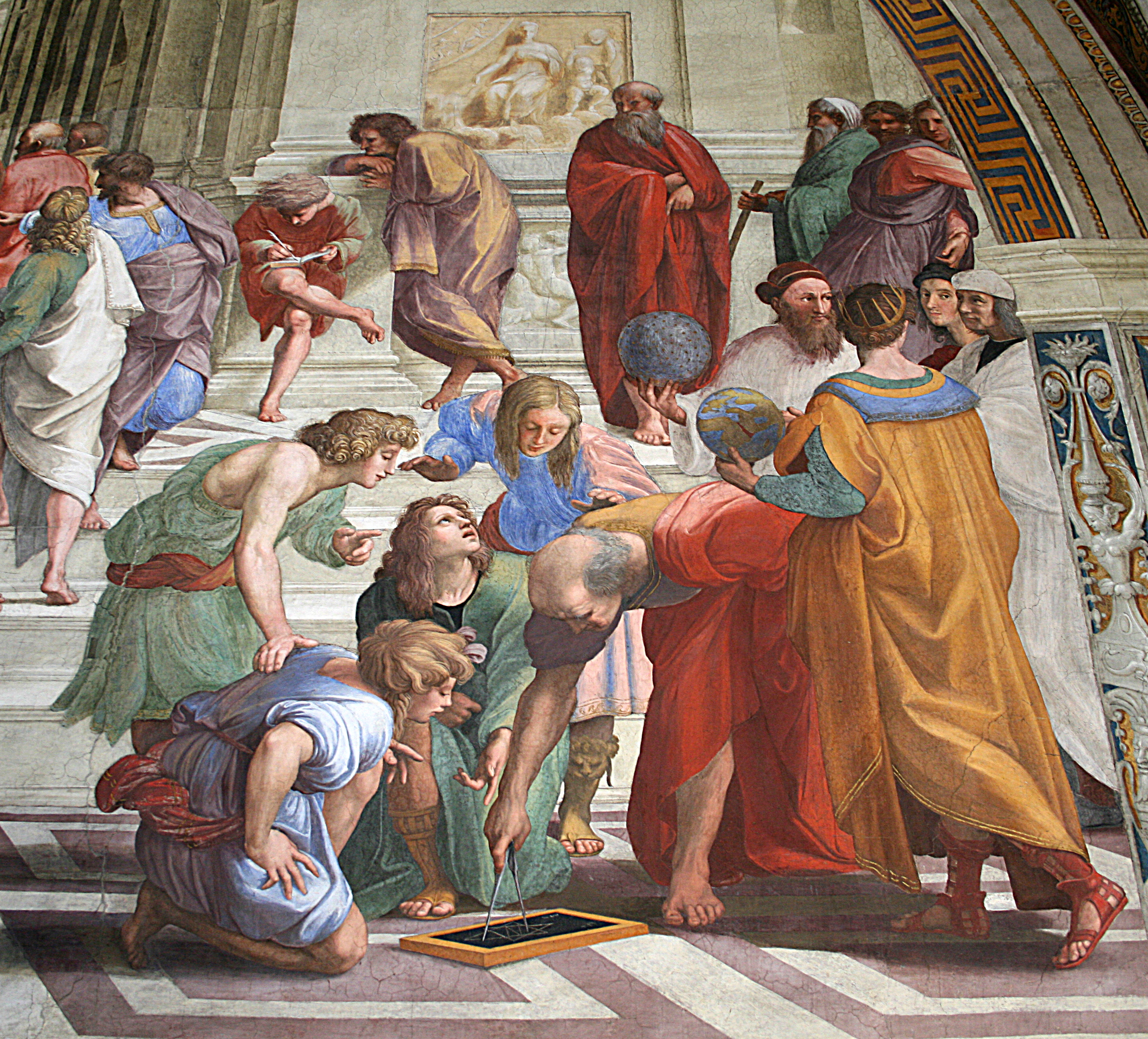 Detail of the monumental fresco done by Raphael for Vatican Palace to Rome.